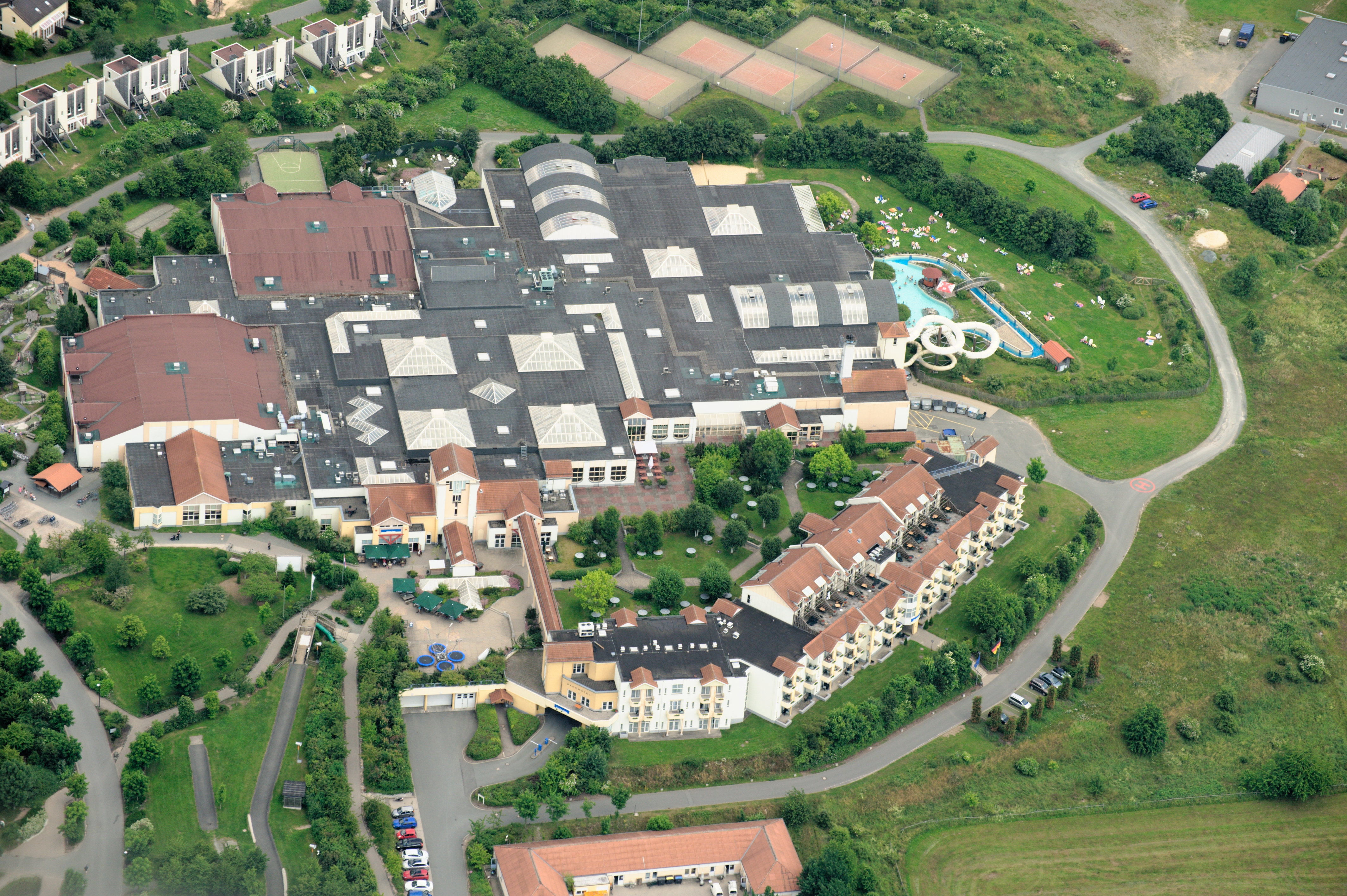 Fotoflug Sauerland-Ost: Erlebnisbad „Aqua Mundo“ in Medebach. The making of this document was supported by the Community-Budget of Wikimedia Germany.